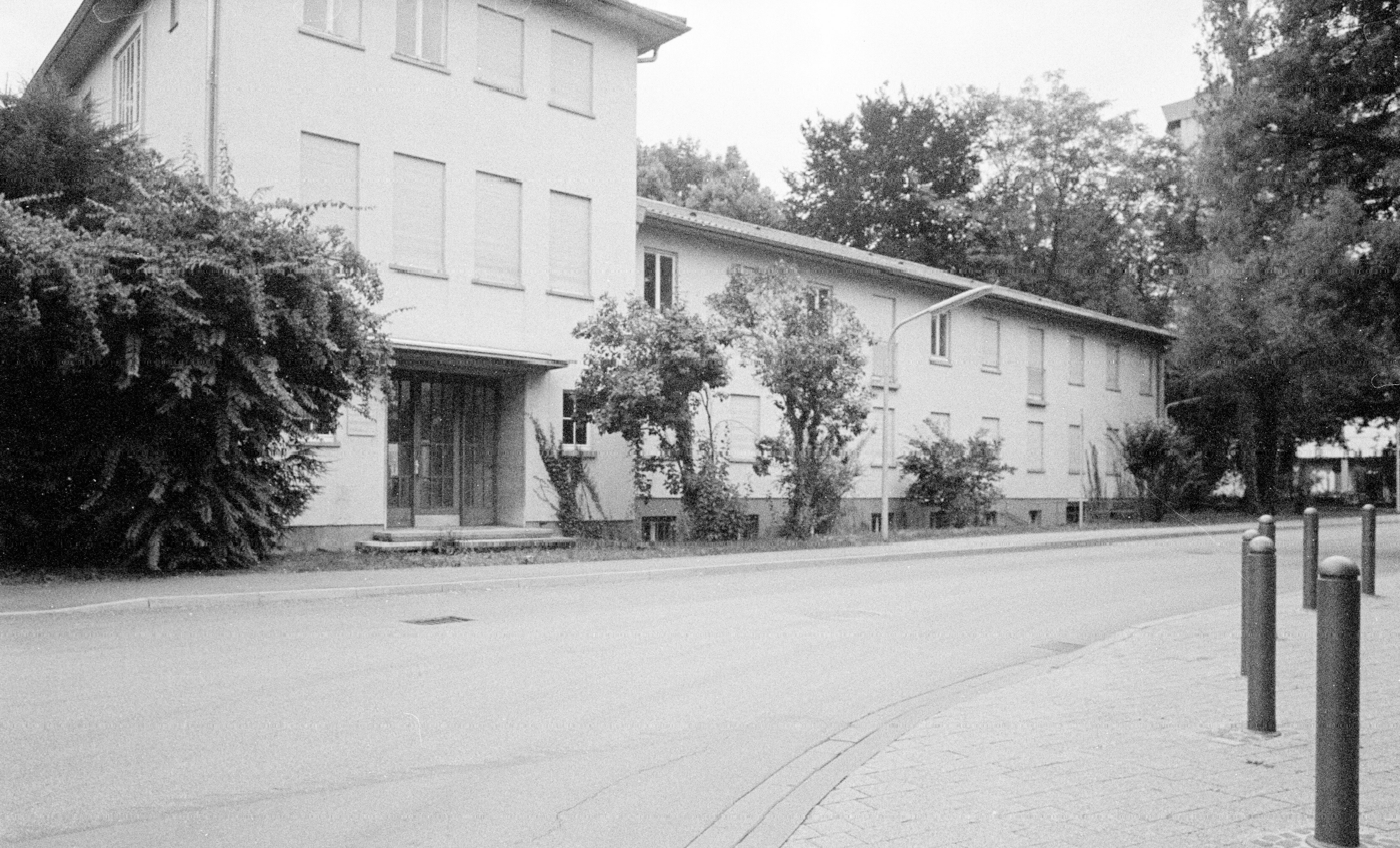 Gebäude der ehemaligen Schwesternschule der Universität Heidelberg (USH, Hollyschule), am 21. November 2009.